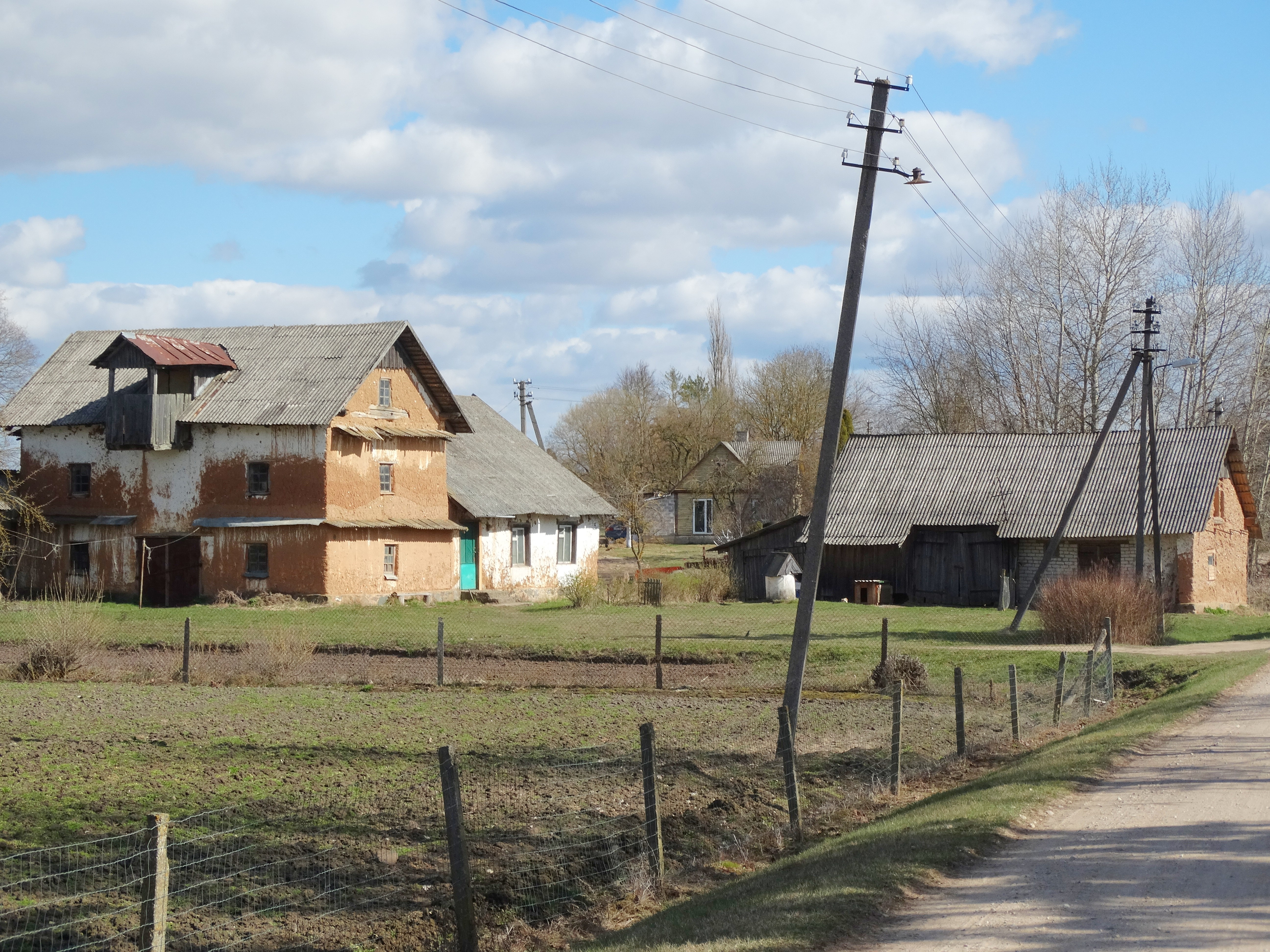 Motor mill, Vadaktai, Radviliškis district, Lithuania